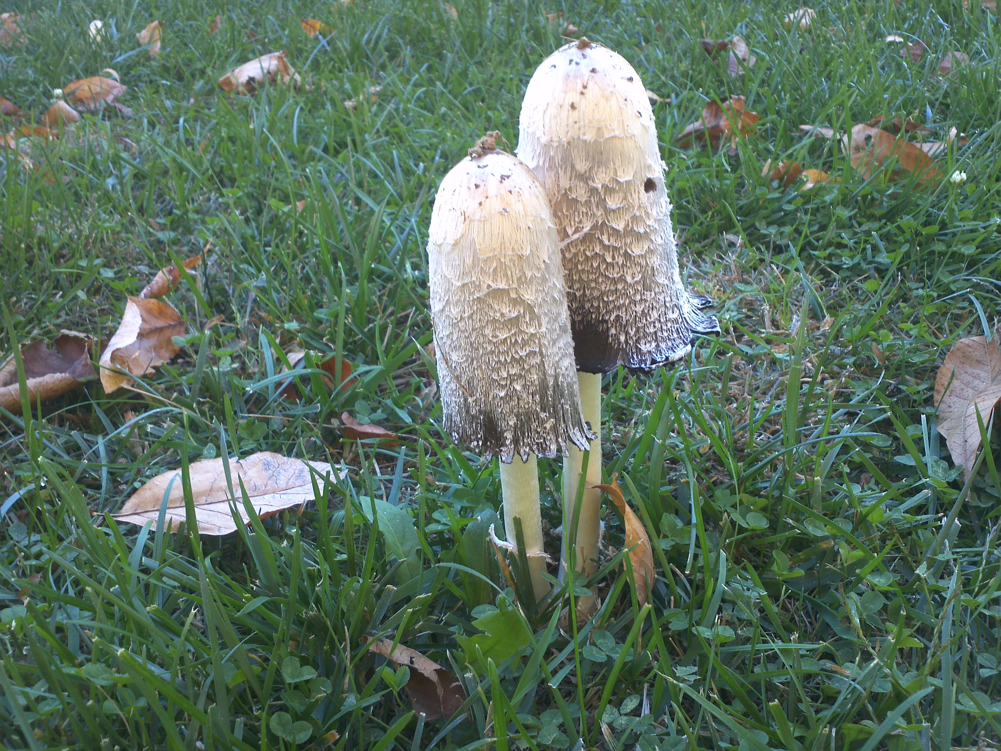 A pair of Shaggy Ink Cap mushrooms (Coprinus comatus). Photographed in East Peoria, USA